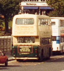 A Guide Friday tour bus on Waverley Bridge, Edinburgh. The bridge is the starting point for all of the city's bus tours. A tour bus of Lothian Buses is infront of it.